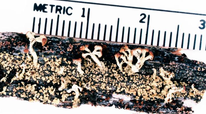 Cladonia botrytes (K.G. Hagen) Willd., 1787 (photograph of a herbarium specimen) Growing on old wood in a sunny exposure along the N side of the Montreal River, E side of Highway 17, Ontario, Canada; collected and identified by Richard E. Riefner (No. 81-501, 23 Jul 1981); specimen is now in the Lichen Herbarium of the New York Botanical Garden. (millimeter scale)